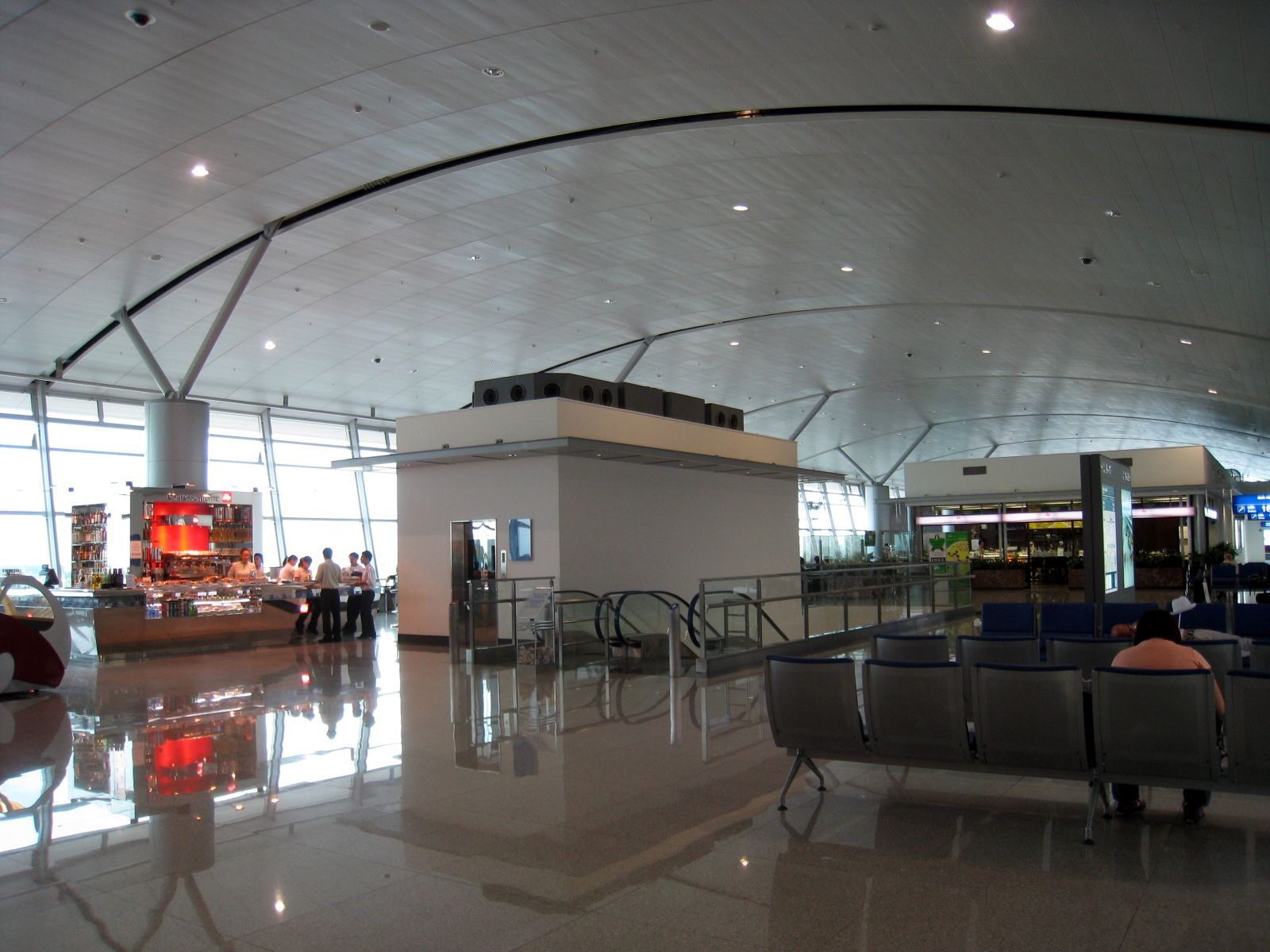 Tan Son Nhat International Airport Level 4 新山一國際機場